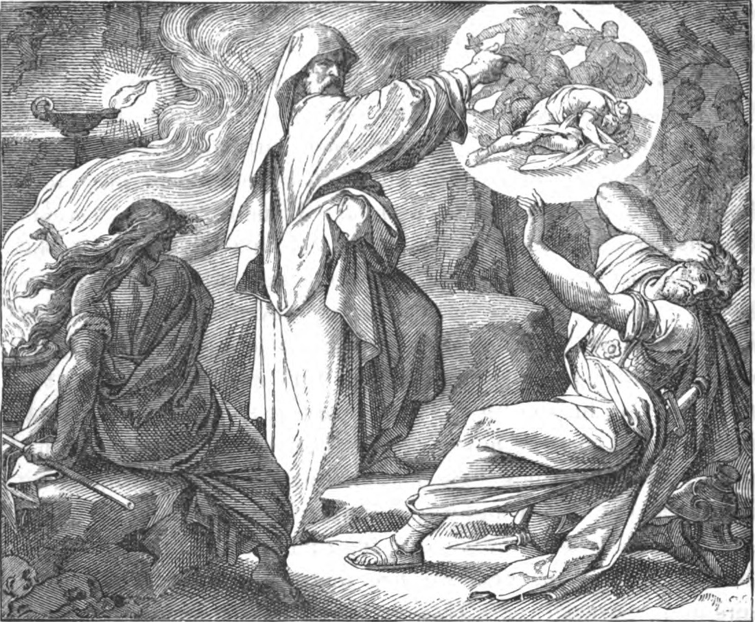 Saul and the witch of Endor.